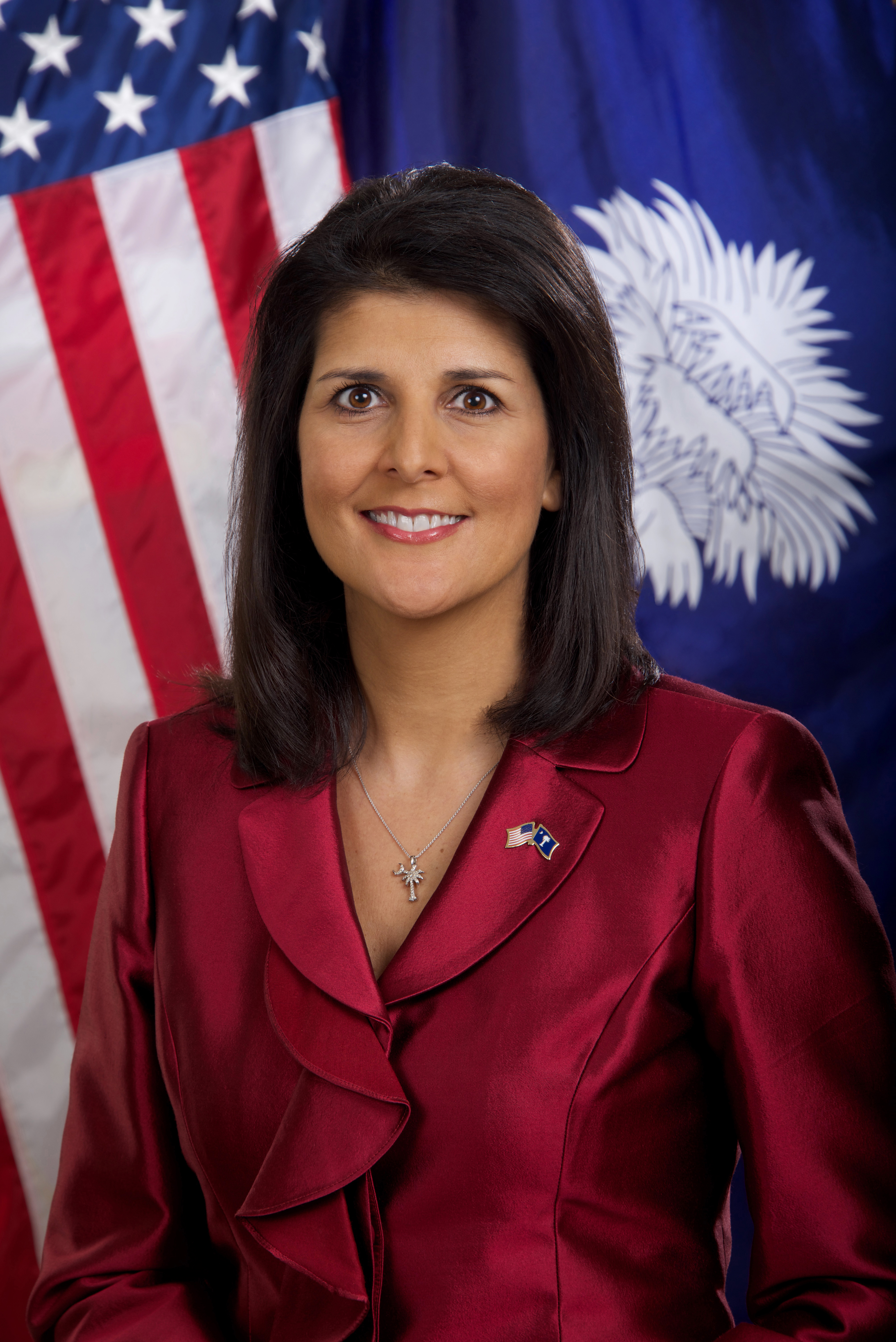 South Carolina Governor Nikki Haley.